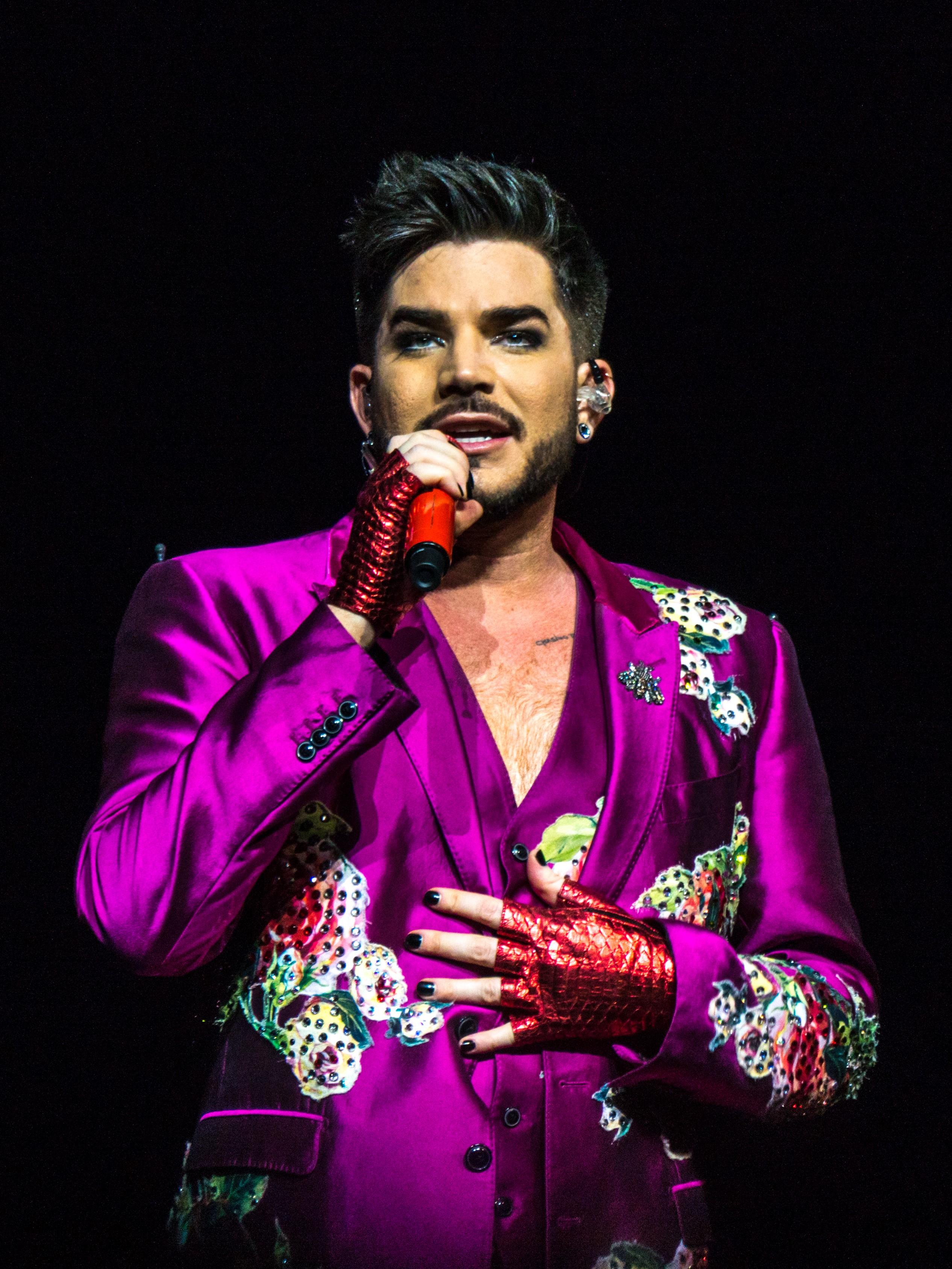 A cropped version of File:Queen And Adam Lambert - The O2 - Tuesday 12th December 2017 QueenO2121217-14 (25093782907).jpg